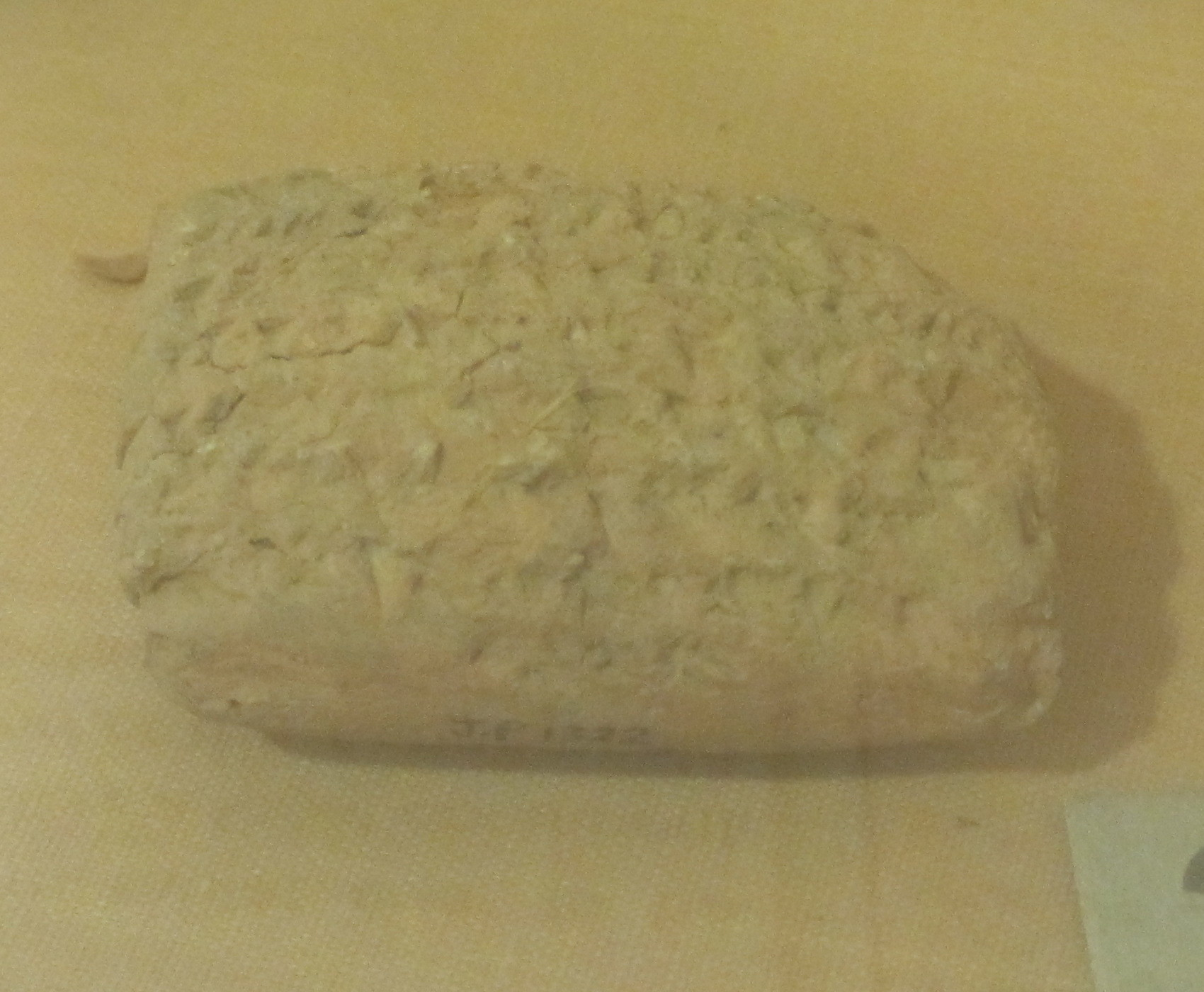 Cuneiform tablet written in Harran to record a contract between two Arameans and an Edomite, Qos-Shama. 1st year of Darius, most likely Darius I. 520 BCE. . Petra Archaeological Museum